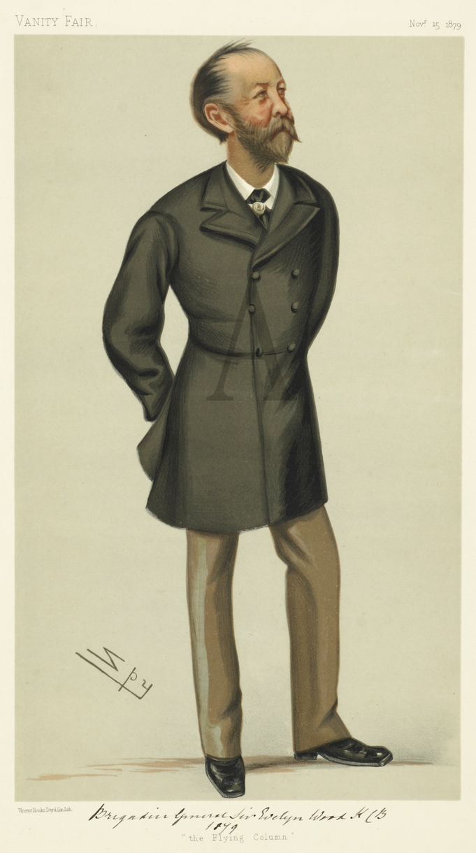 Caricature of Brigadier-General Sir HE Wood KCB VC. Caption read "the Flying Column".